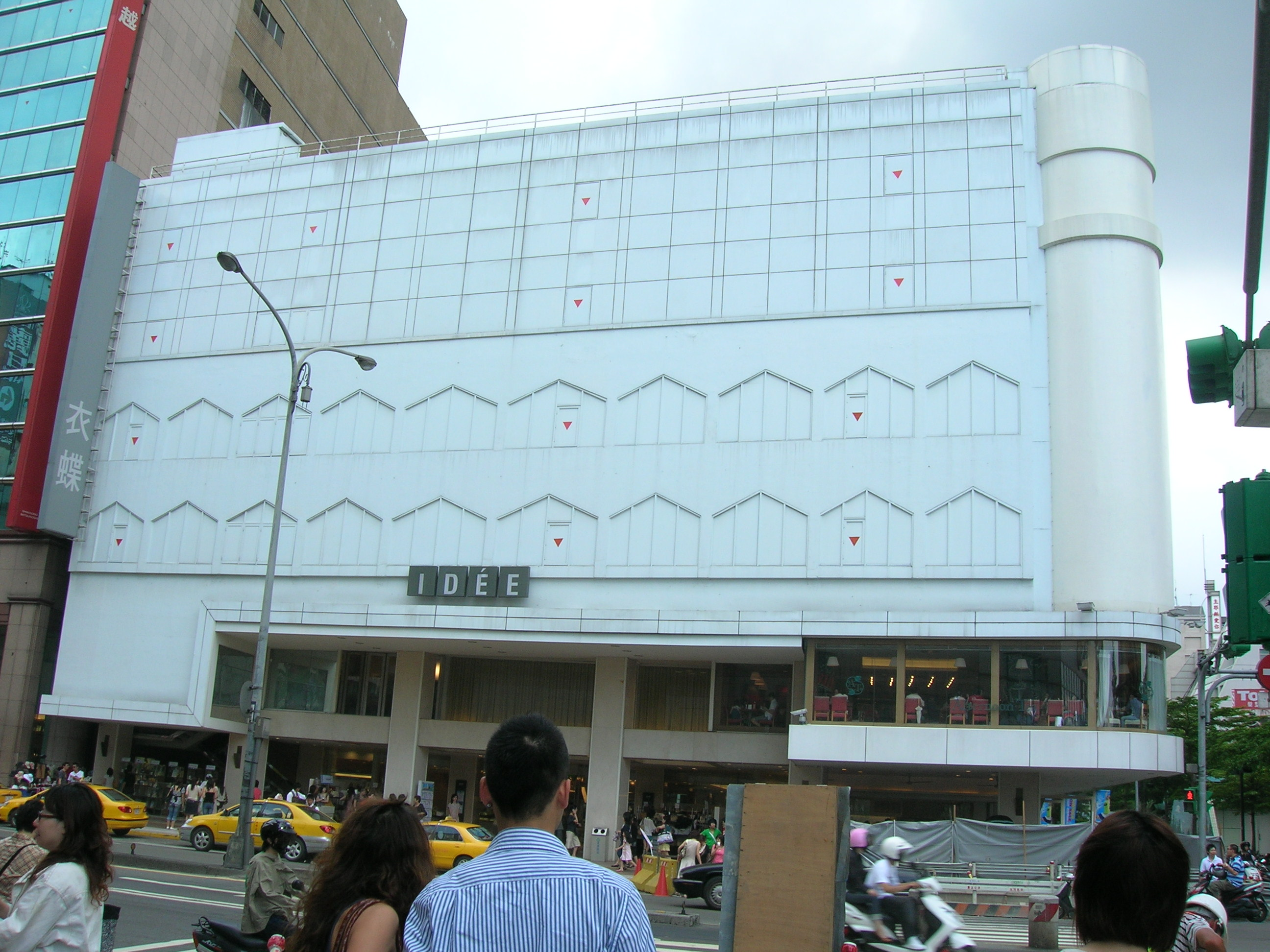 IDEE Department Store, Taipei, Taiwan.